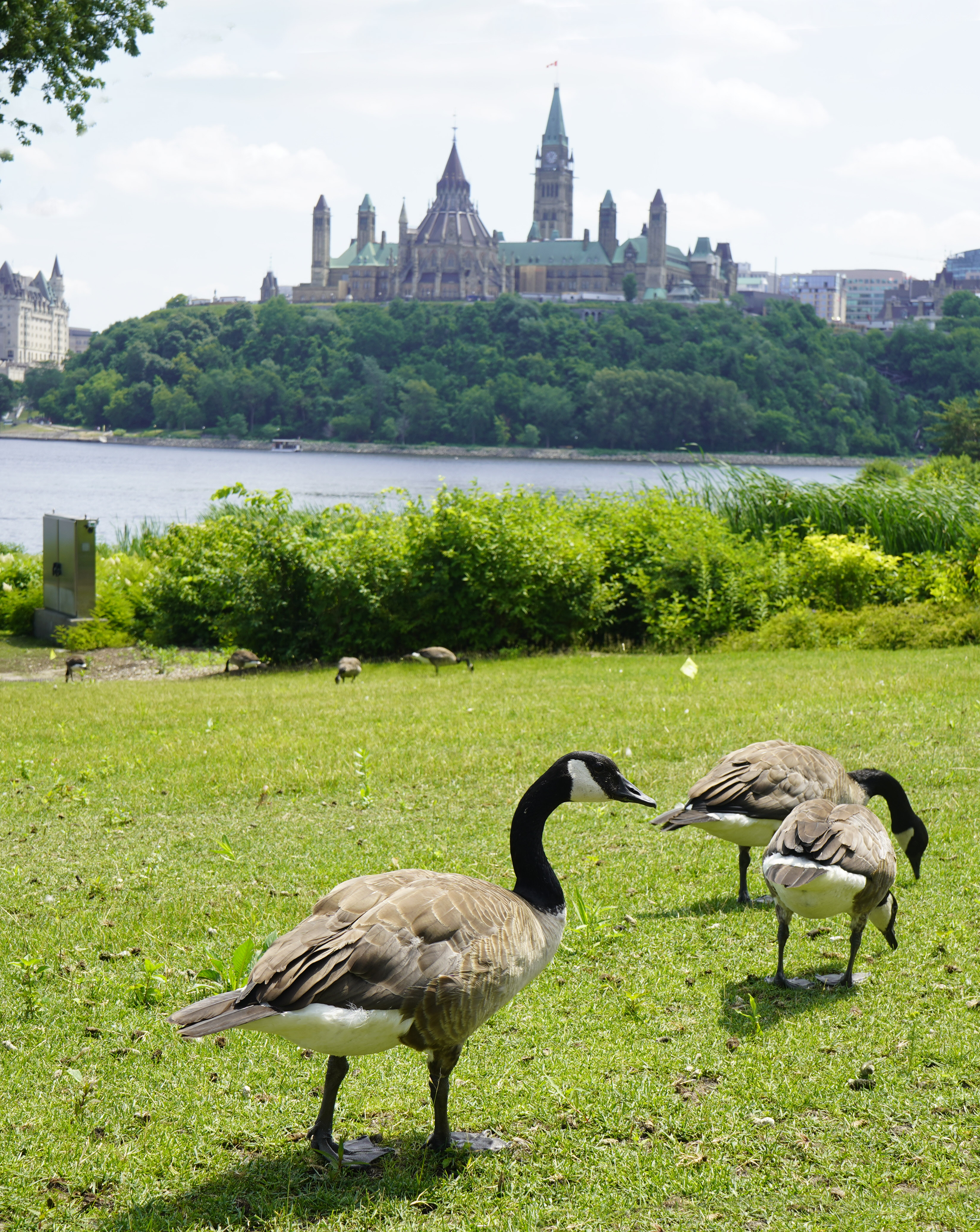 Canada Geese in Gatineau with a view of Parliament (July 2019). Taken from the grounds of the Canadian Museum of History.